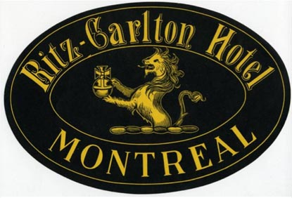 Designed in 1960 for the Ritz-Carlton Montreal.